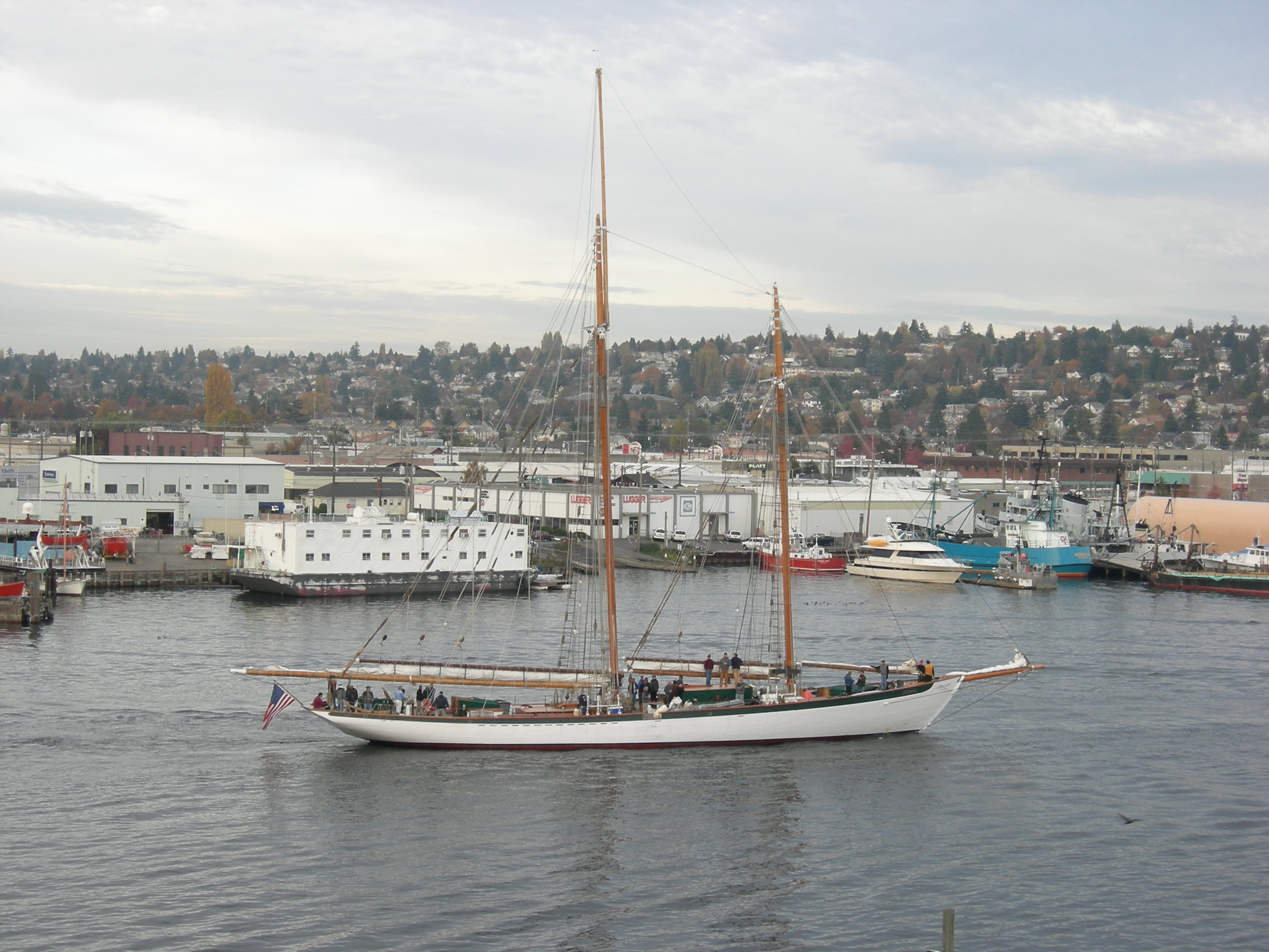 The two-masted schooner Zodiac, built 1924, was the last working pilot schooner in the United States. Now owned by the Northwest Schooner Society, this picture shows it motoring east along the Lake Washington Ship Canal, just east of the Ballard Bridge (from which this picture was taken), Seattle, Washington, USA. The Zodiac is listed on the National Register of Historic Places (NRHP), ID #82004248.